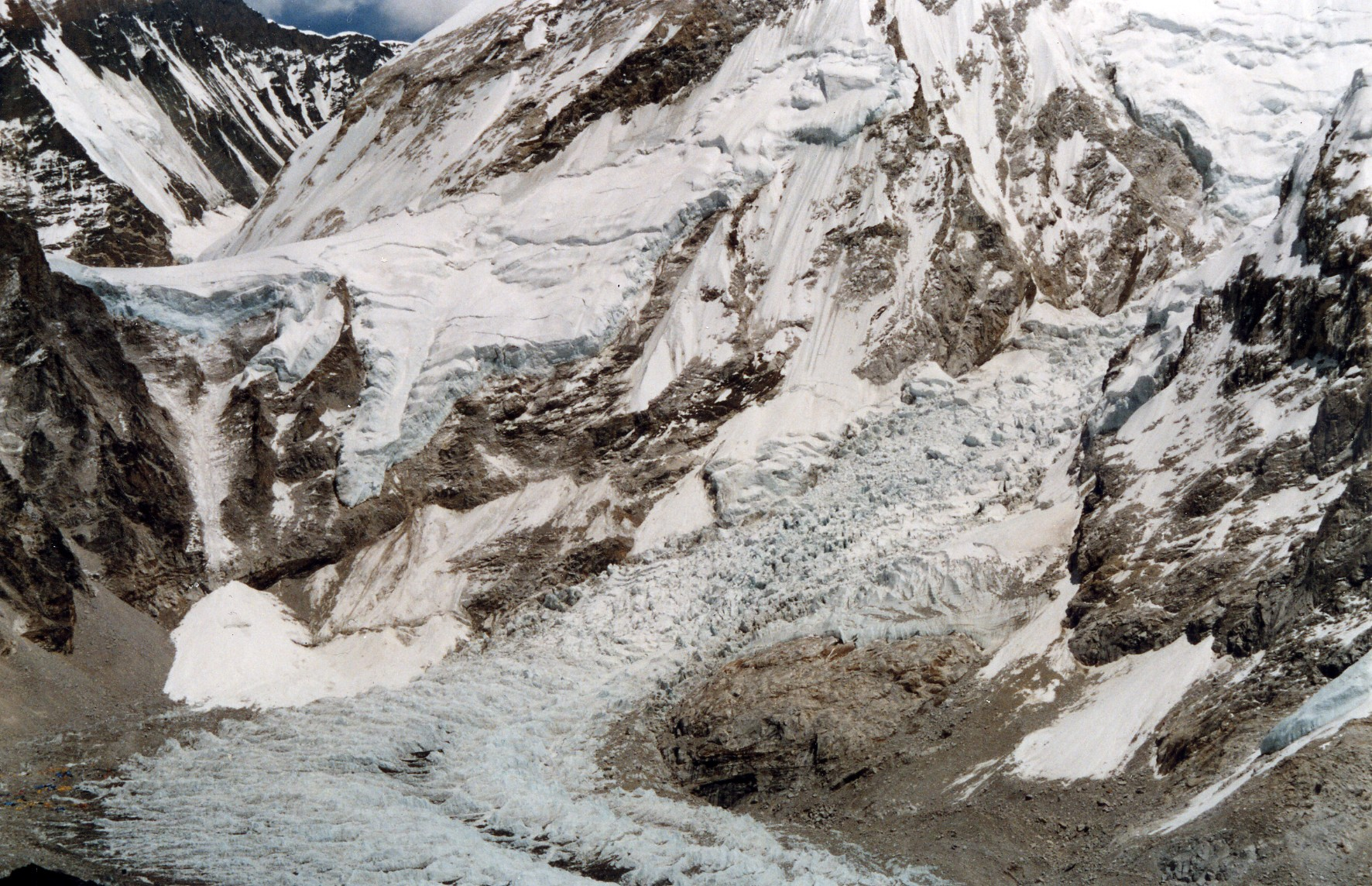 EBC (lower left) and Khumbu-Icefall as seen from Kala Patar own photograph --Uwe Gille 09:44, 5 January 2006 (UTC)